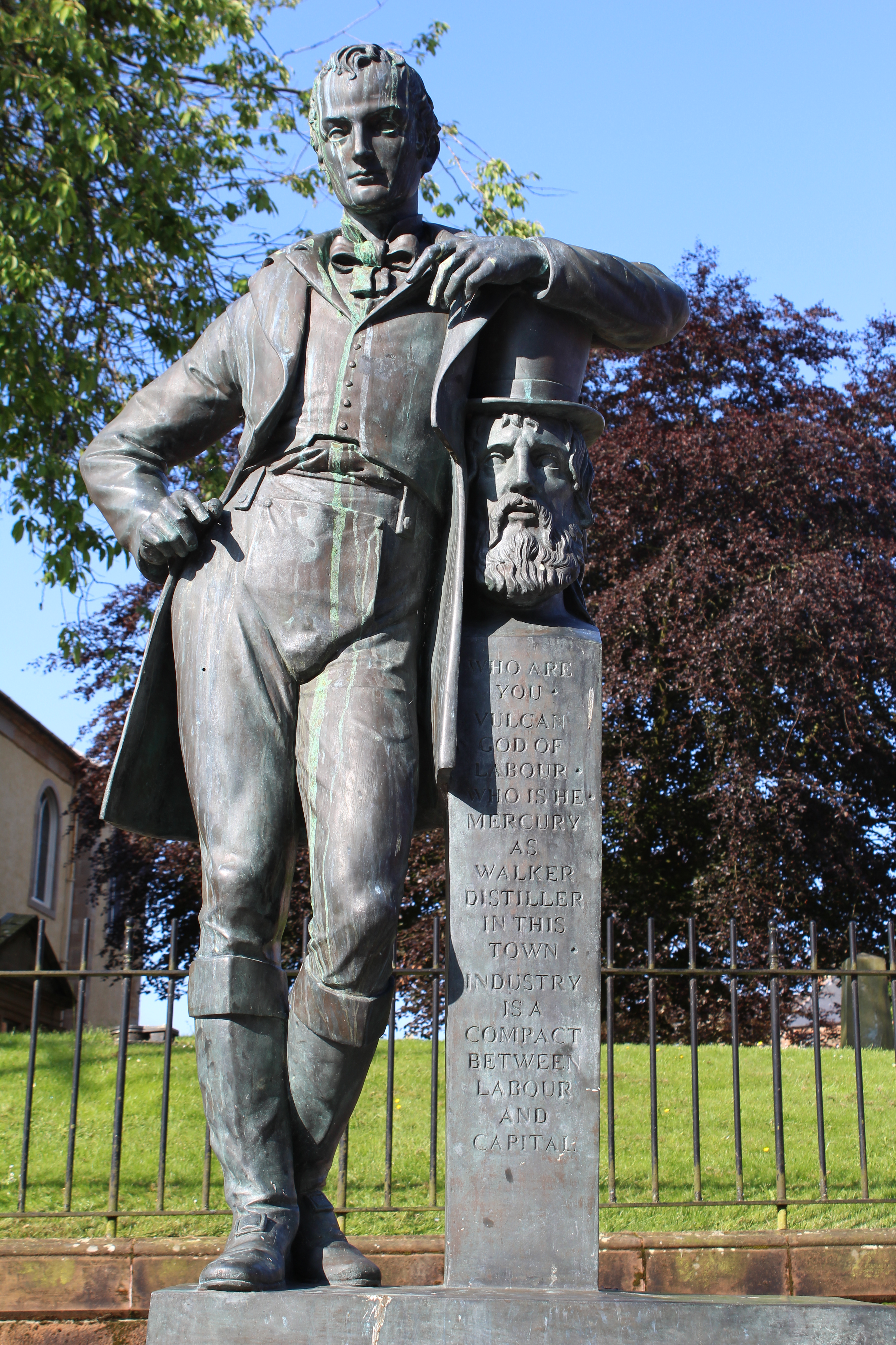 A statue of Johnnie Walker, creator of the famous whisky brand located in his home town and the brands origin of Kilmarnock in Scotland